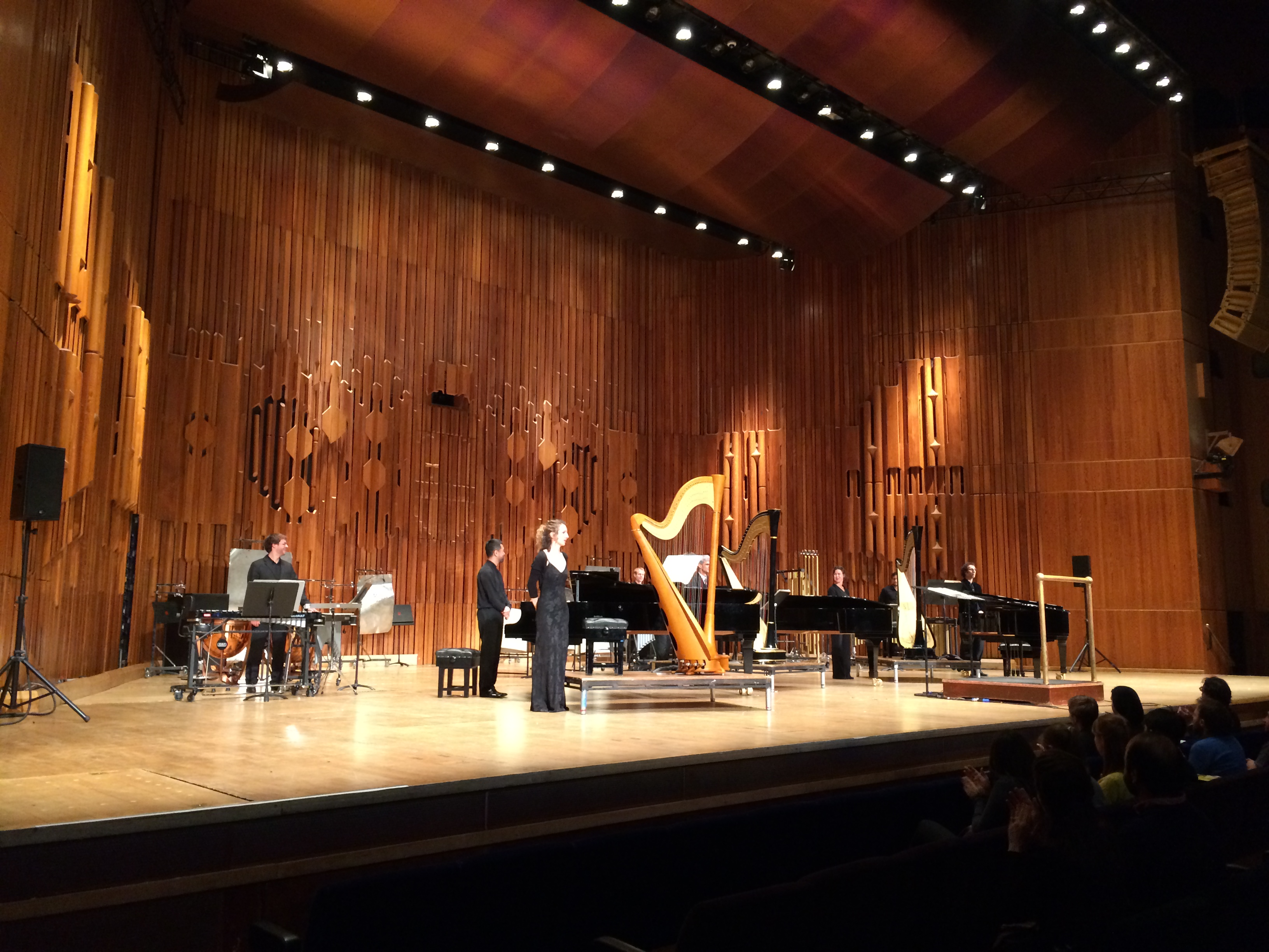 View of Barbican Hall after a concert of Boulez' piece Sur Incises by the Ensemble Intercontemporain, 28 April 2015.